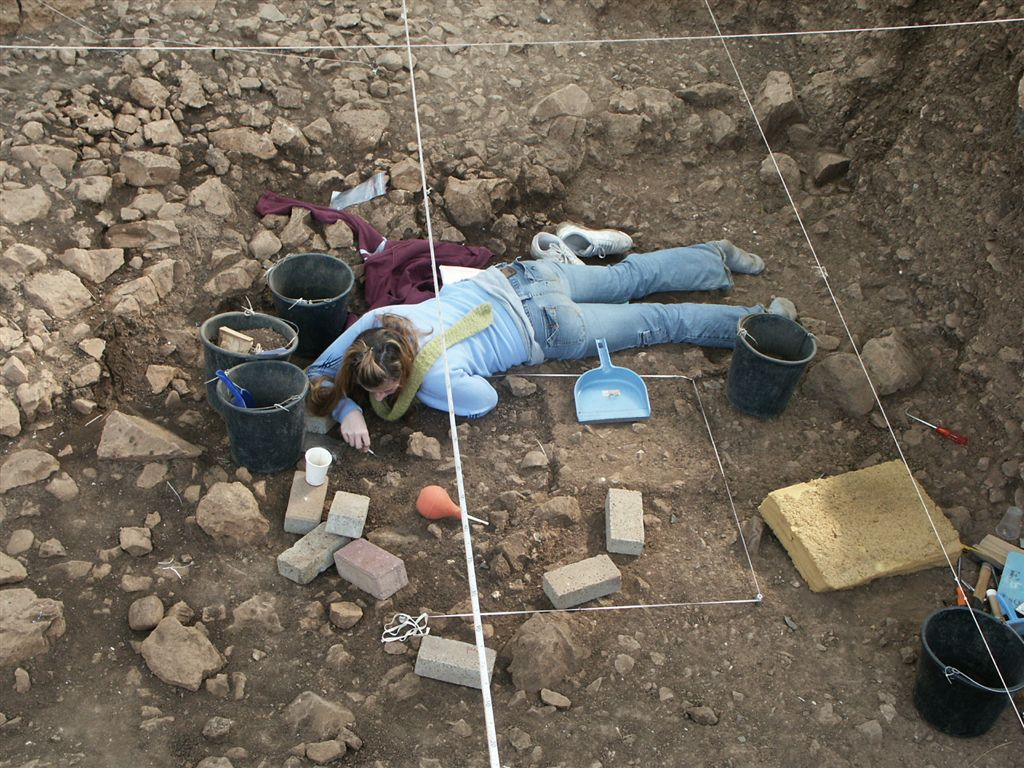 Excavation of a Natufian structure at el-Wad Terrace, Mount Carmel, Israel